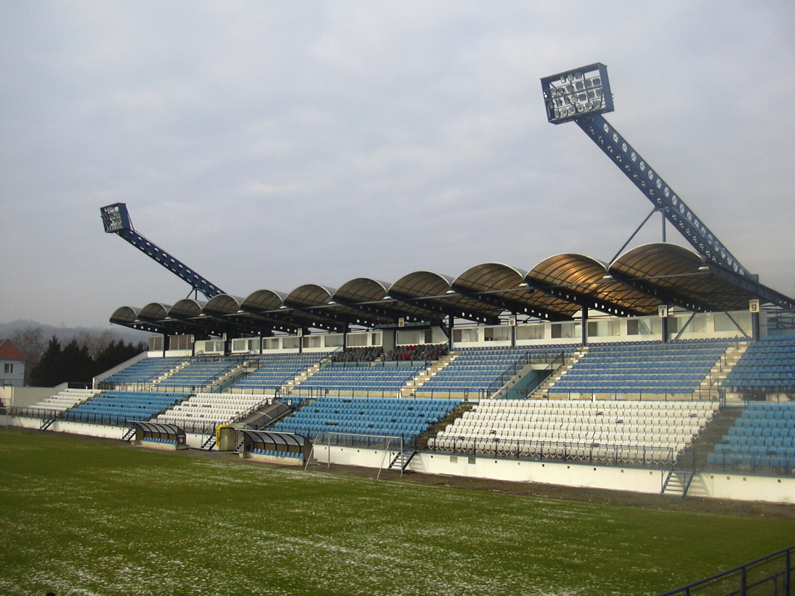 Stadion FK Drnovice (Vyškov District, Czech Republic)